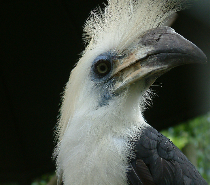 White-crowned Hornbill (Berenicornis comatus, syn. Aceros comatus). Shows upper body.